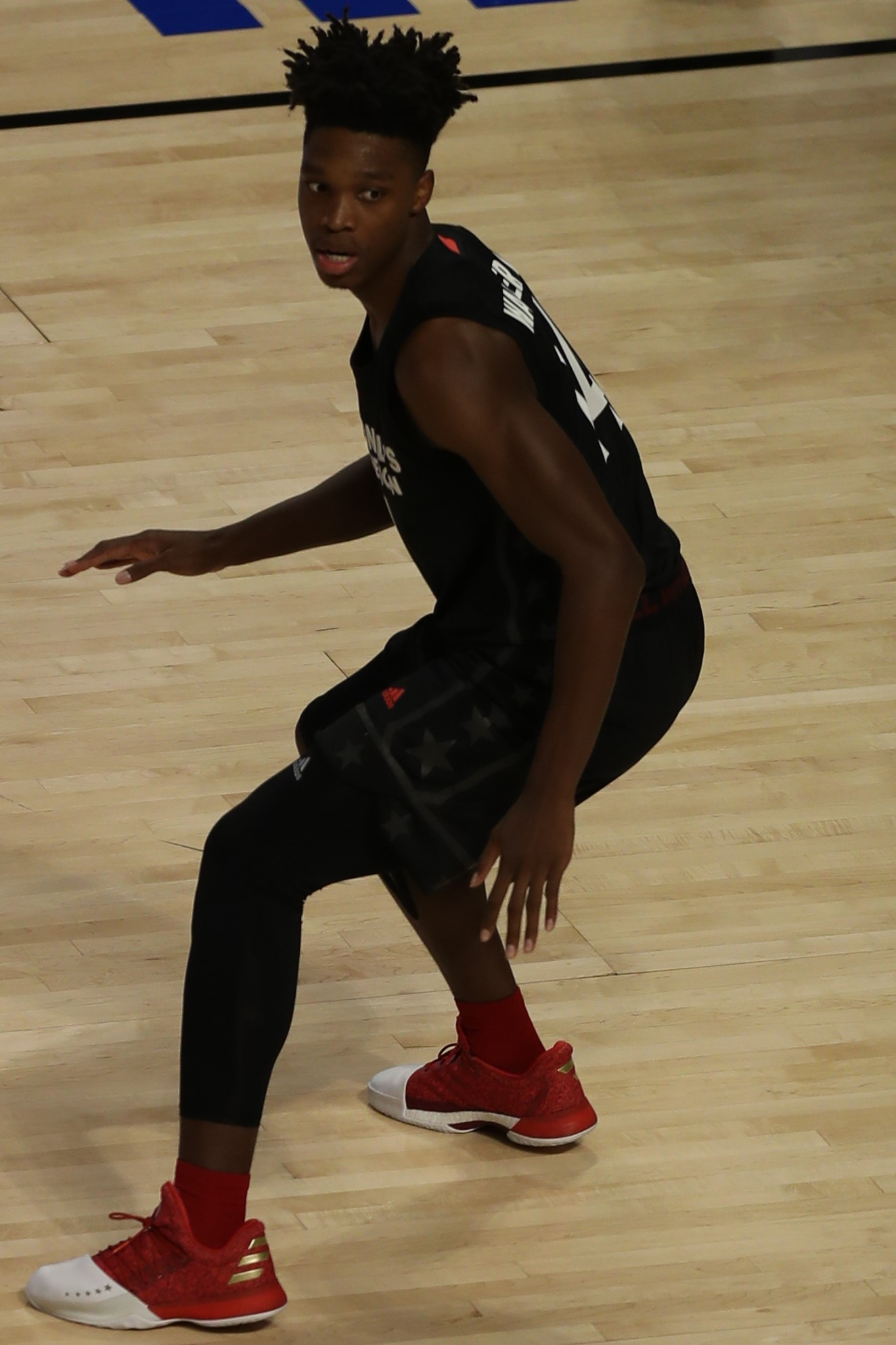 Lonnie Walker IV at the w:2017 McDonald's All-American Boys Game